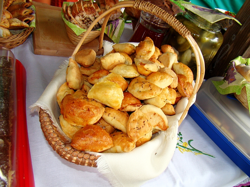 Cabbage dumpling with caraway